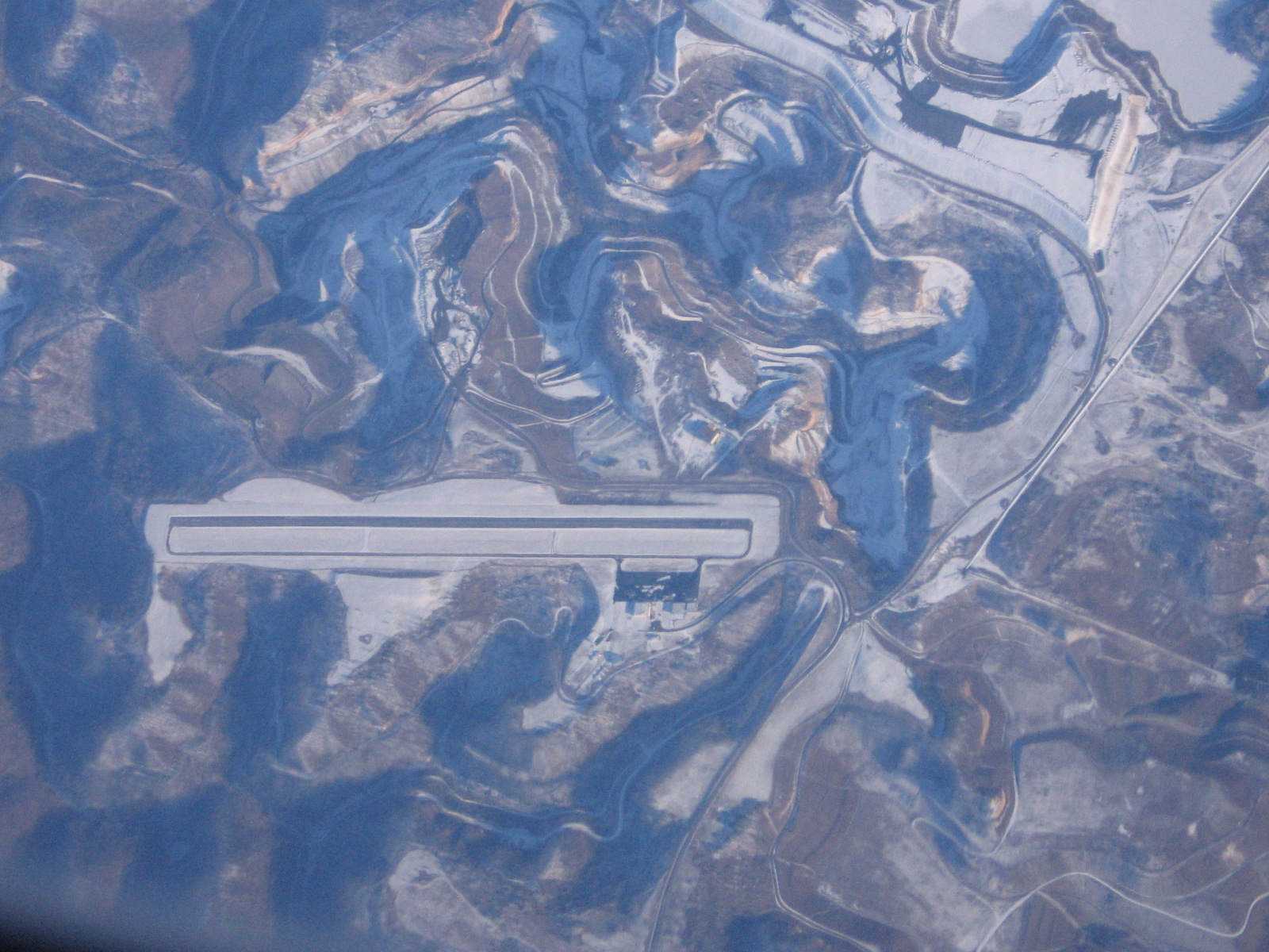 Big Sandy Regional Airport near Prestonsburg, Kentuck in the snow from DL1730 PIT-ATL